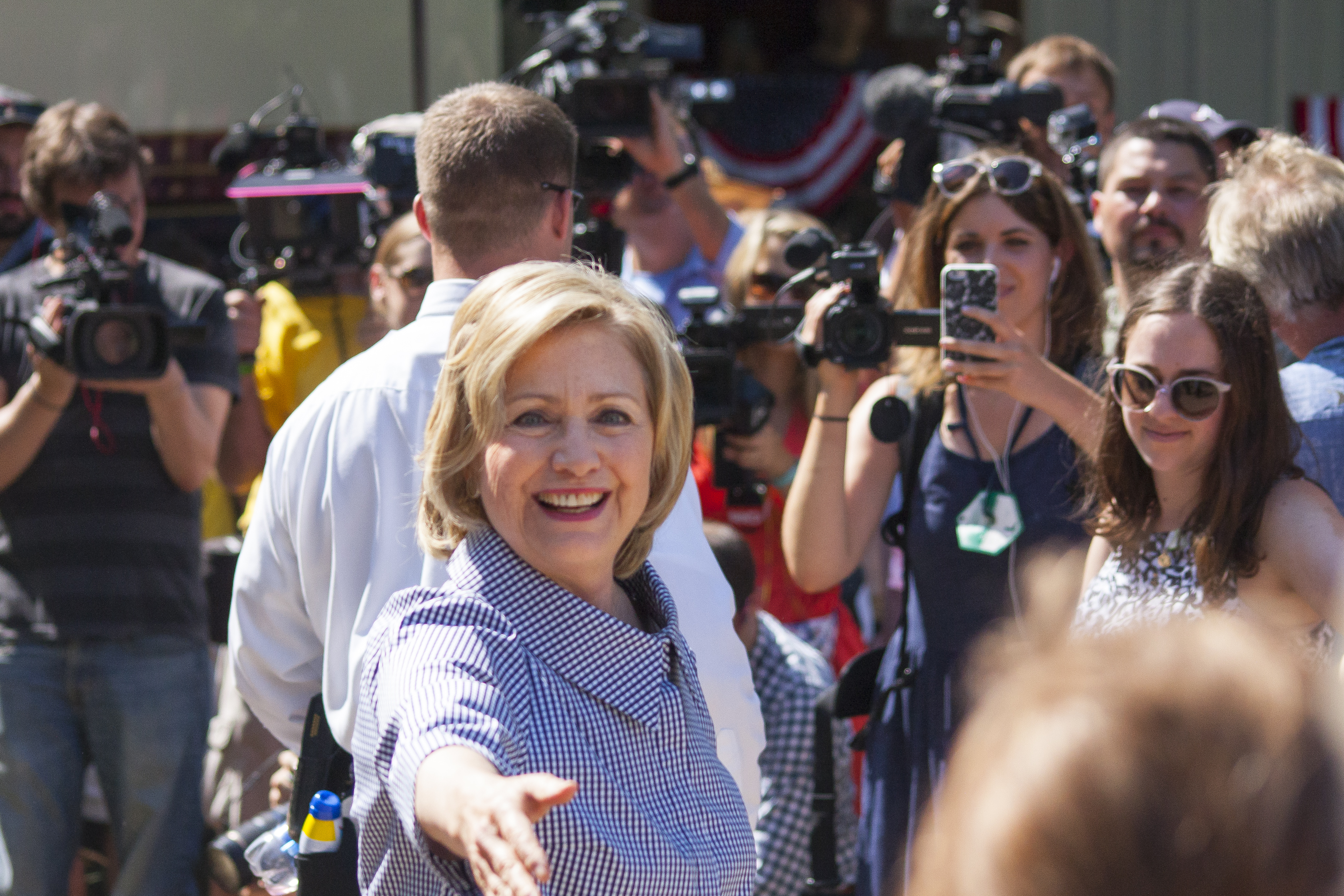 Hillary Clinton arrived at the State Fair with former U.S. Senator Tom Harkin, who endorsed her, and later attracted a huge when she went to see the Butter Cow.